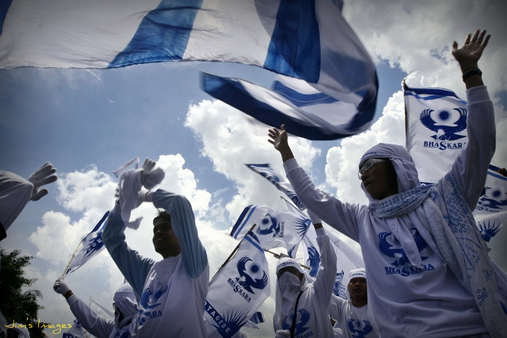 Supporters of PAN (National Mandate Party) participated in a campaign before the Legislative election April 2009